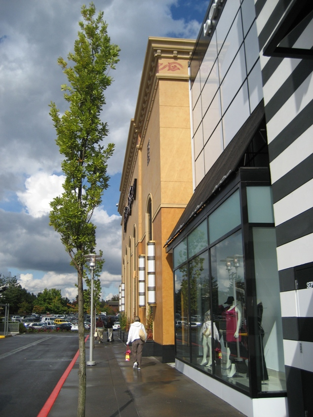 Washington Square, outside the section added in the mid-2000s.